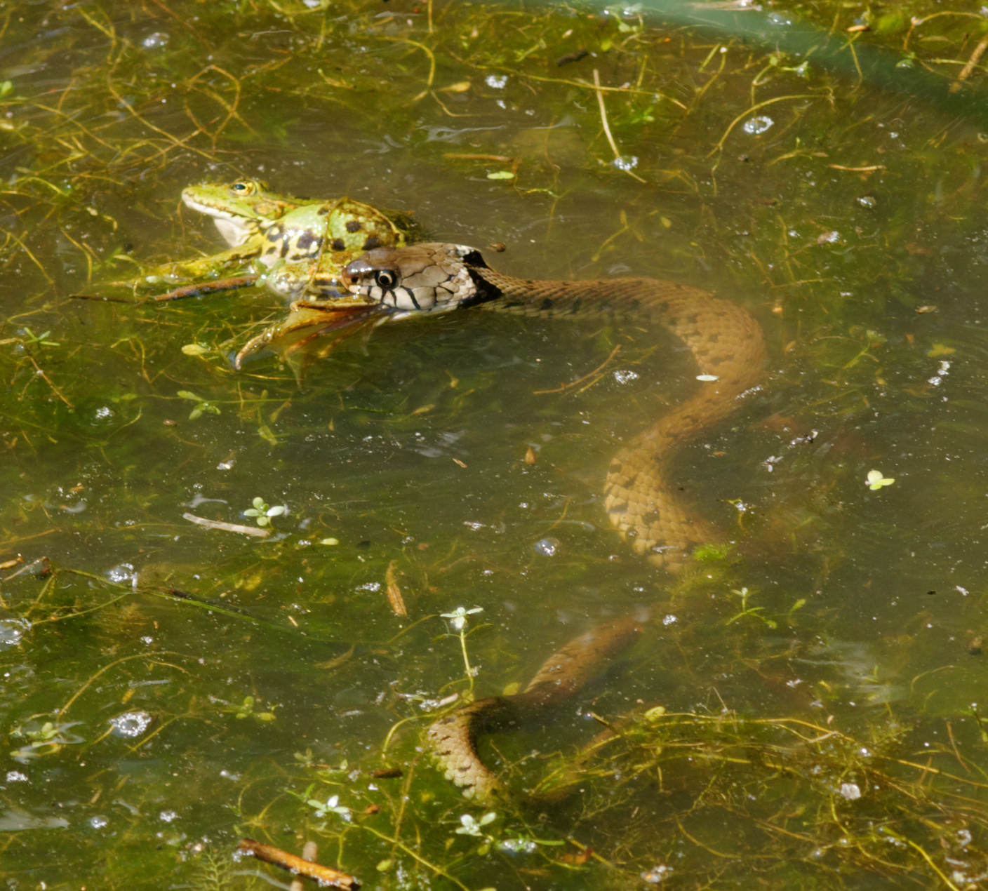 This photograph was taken with a Nikon D300 Serpent (Couleuvre à collier, Natrix natrix) attrapant une grenouille.